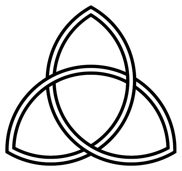 A form of the Triquetra symbol which has the exact geometrical proportions to be composed of three overlapping Vesica piscis symbols -- something which is important to a few authors of books on Christian symbolism. (Ribbons version.) For other versions of the triquetra, see also Image:Triquetra-Vesica-solid.png , Image:Triquetra-Double.png , Image:Triquetra-Interlaced-Triangle-Circle.png , Image:Triquetra-tightly-knotted.png , and Image:Triquetra-circle-interlaced.png . The six curve-intersection points define four small equilateral triangles, which make up one large equilateral triangle.